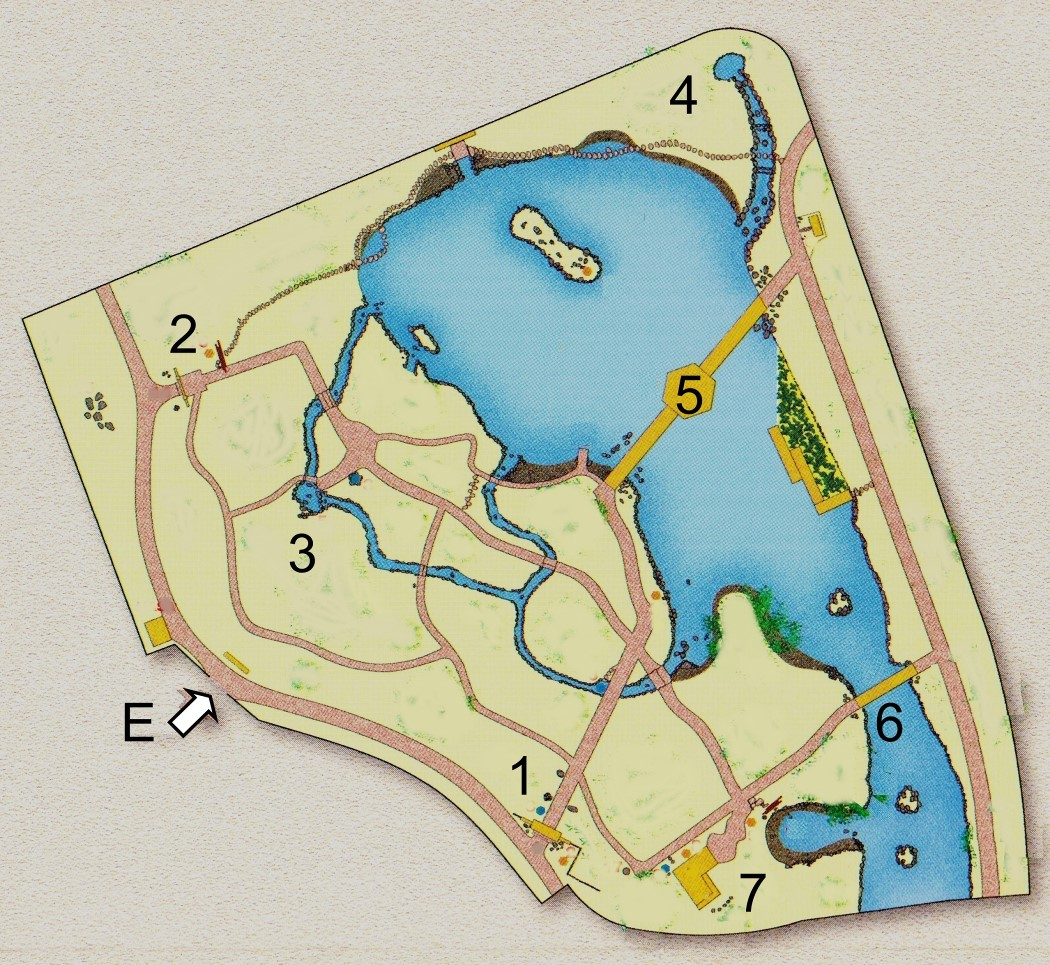 Japenese garden at Breslau